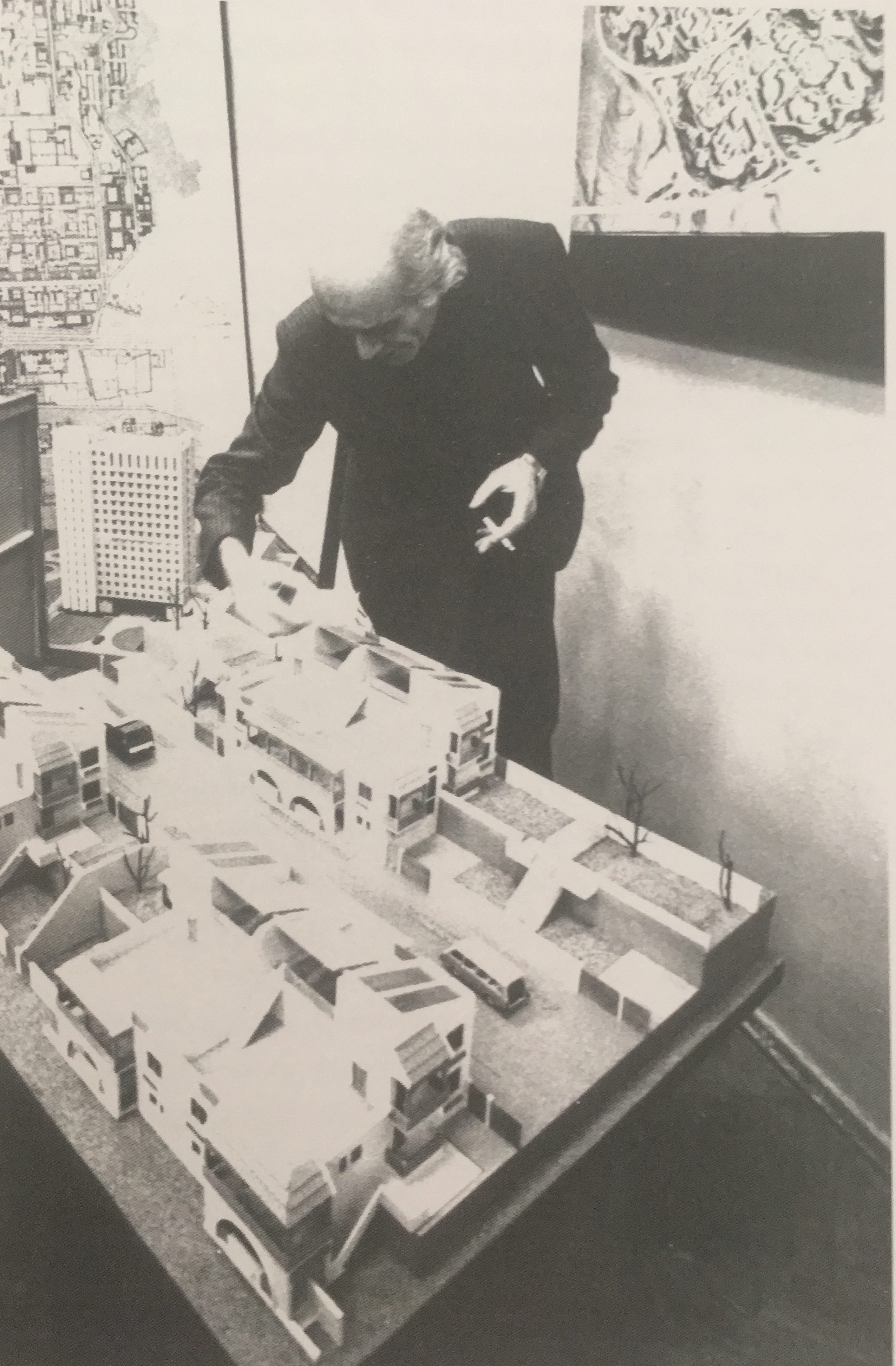 Shota Kavlashvili reviews a model for new construction in Old Tbilisi circa 1980